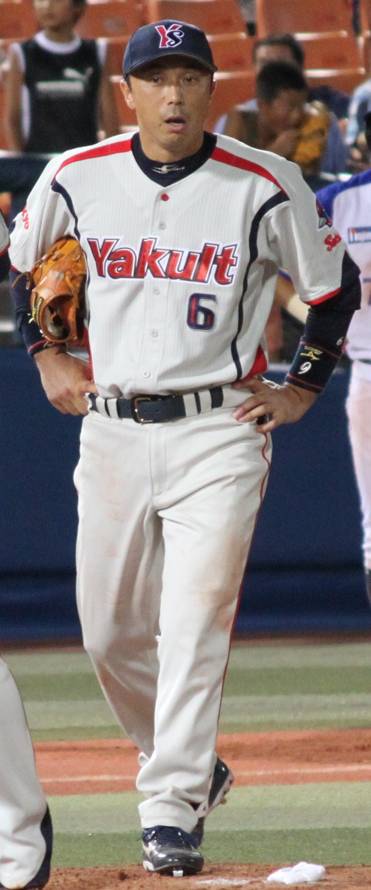 Shinya Miyamoto, infielder of the Tokyo Yakult Swallows, at Yokohama Stadium.